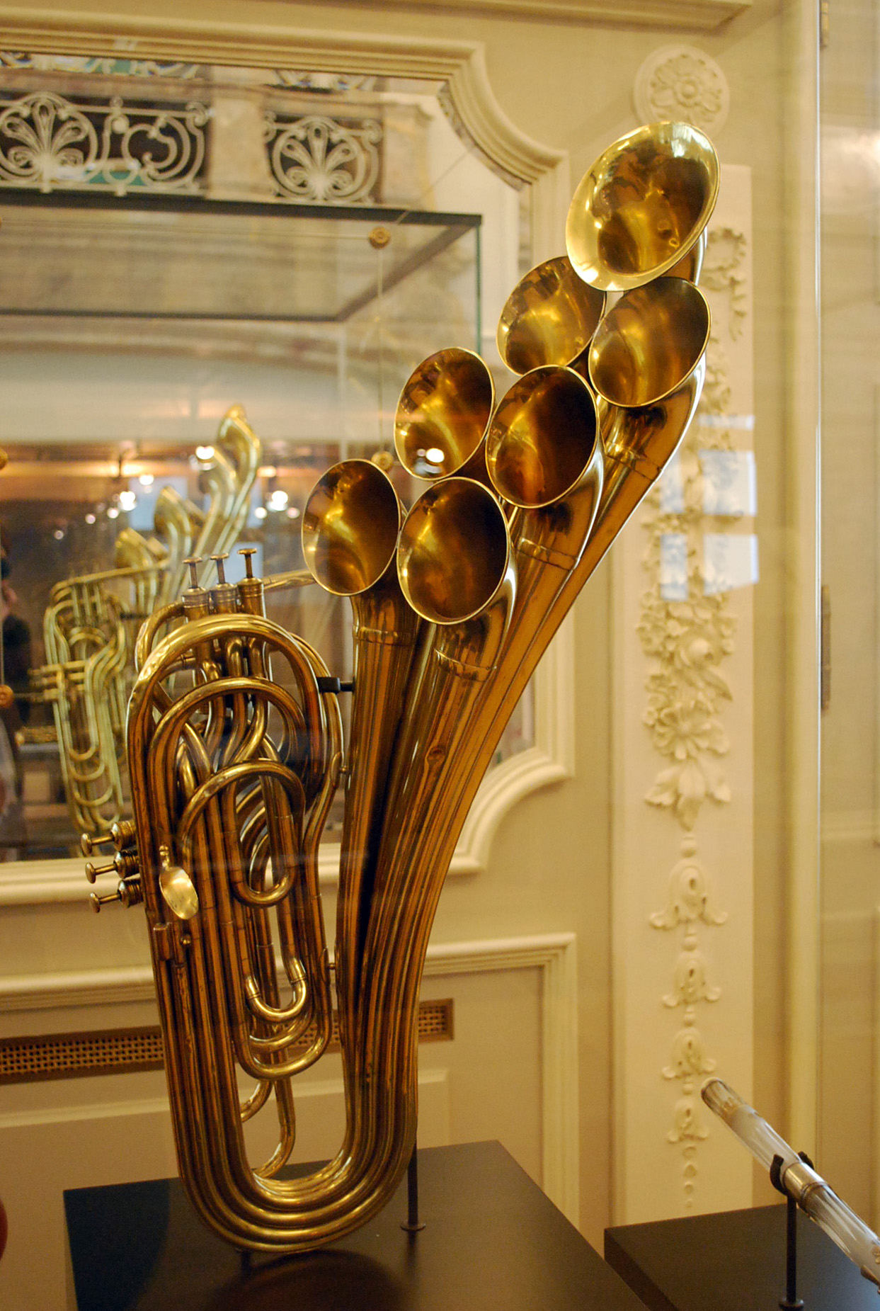 Antique brass instrument on display at the Musical Instrument Museum in Brussels, Belgium